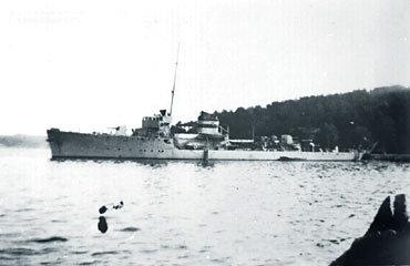 The Norwegian Sleipner class destroyer HNoMS Odin